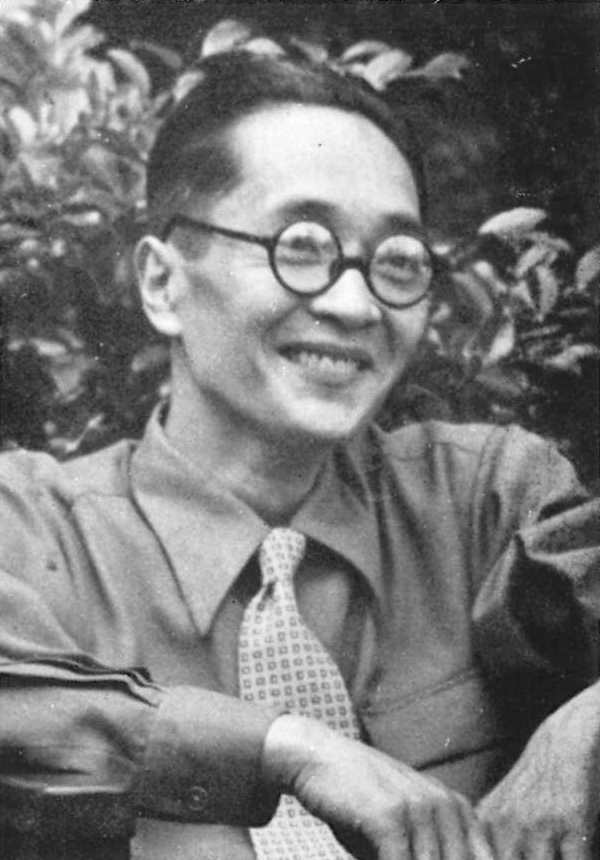 Eijiro Hisaita